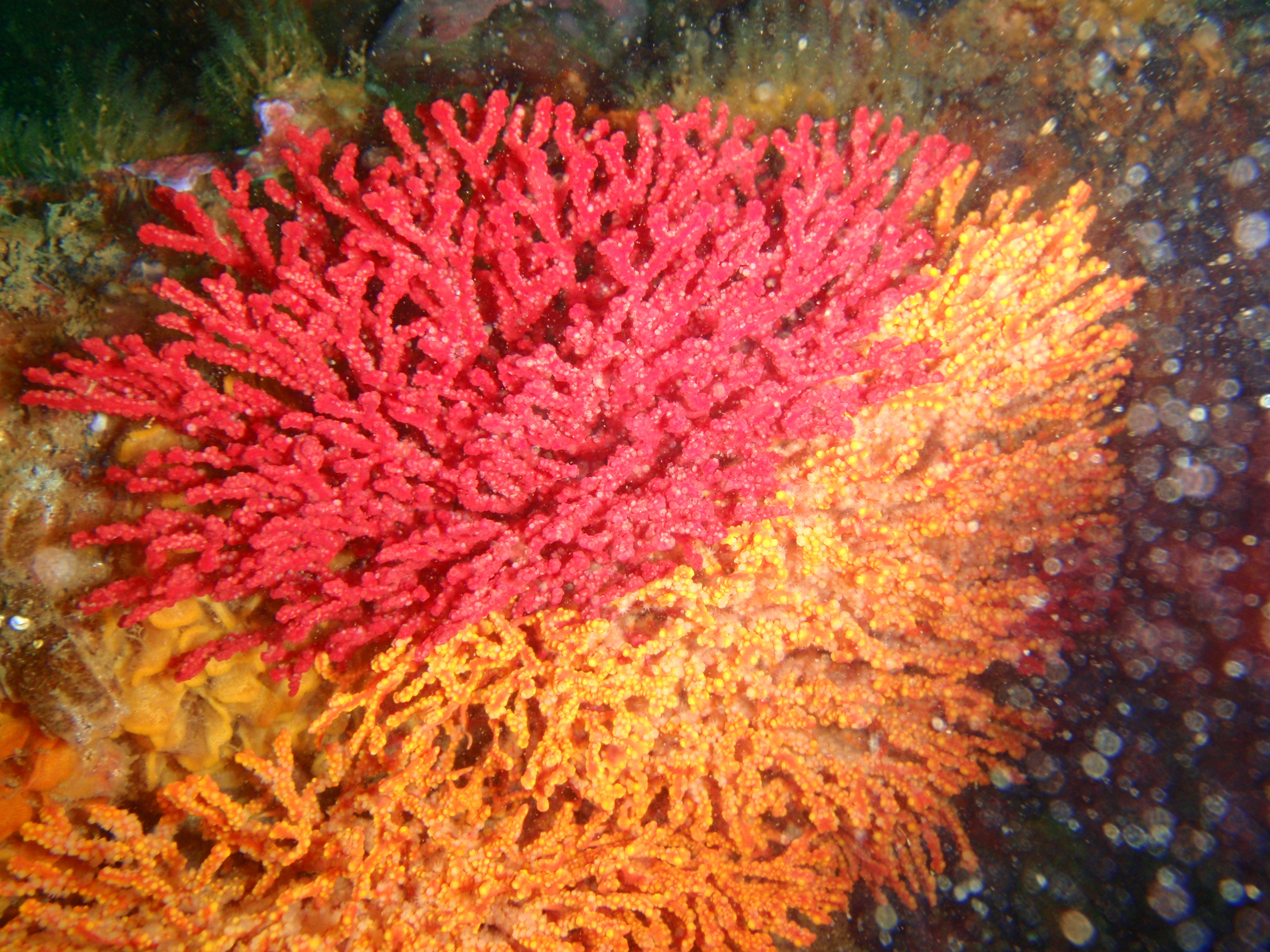 Multicoloured sea fan at the wreck of SAS Pietermaritzburg at Miller's Point